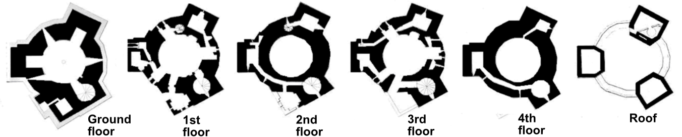 A plan of the keep of Orford Castle, quality improved digitally by hchc2009, 2011